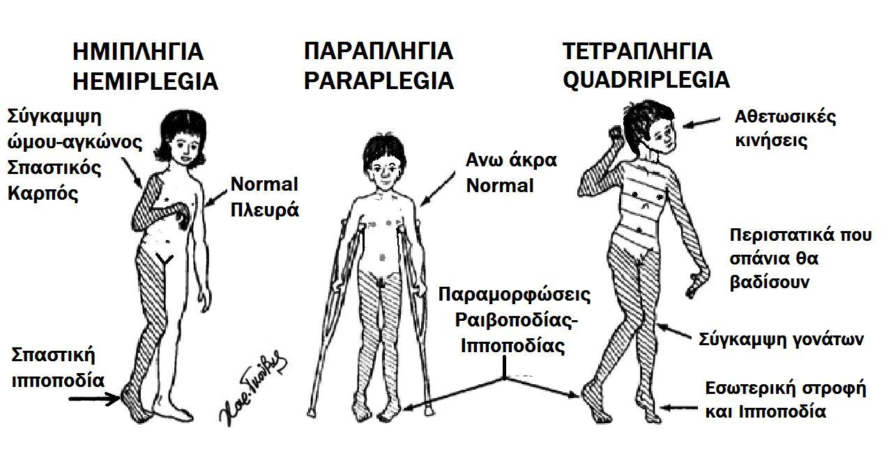 Cerebral palsy forms